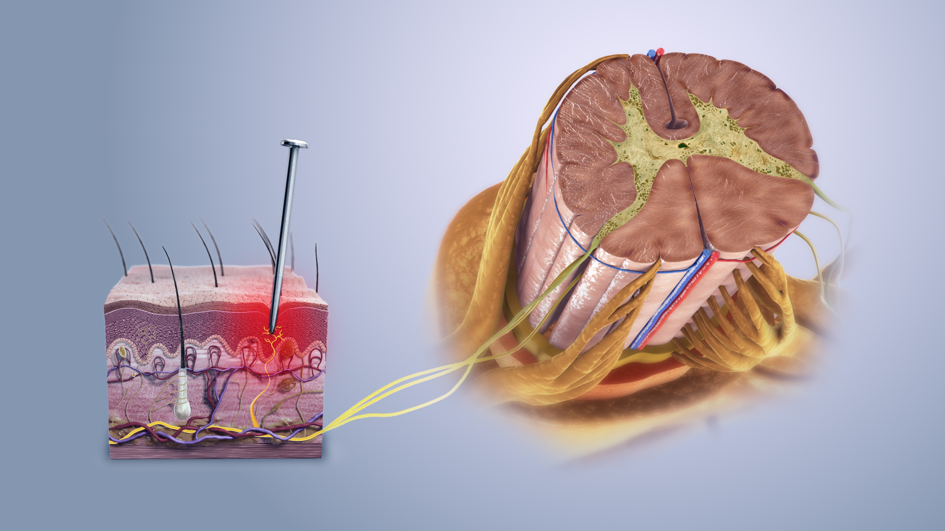 Sensory nerve fibres stimulated beyond harmful intensity causing nociceptive pain.